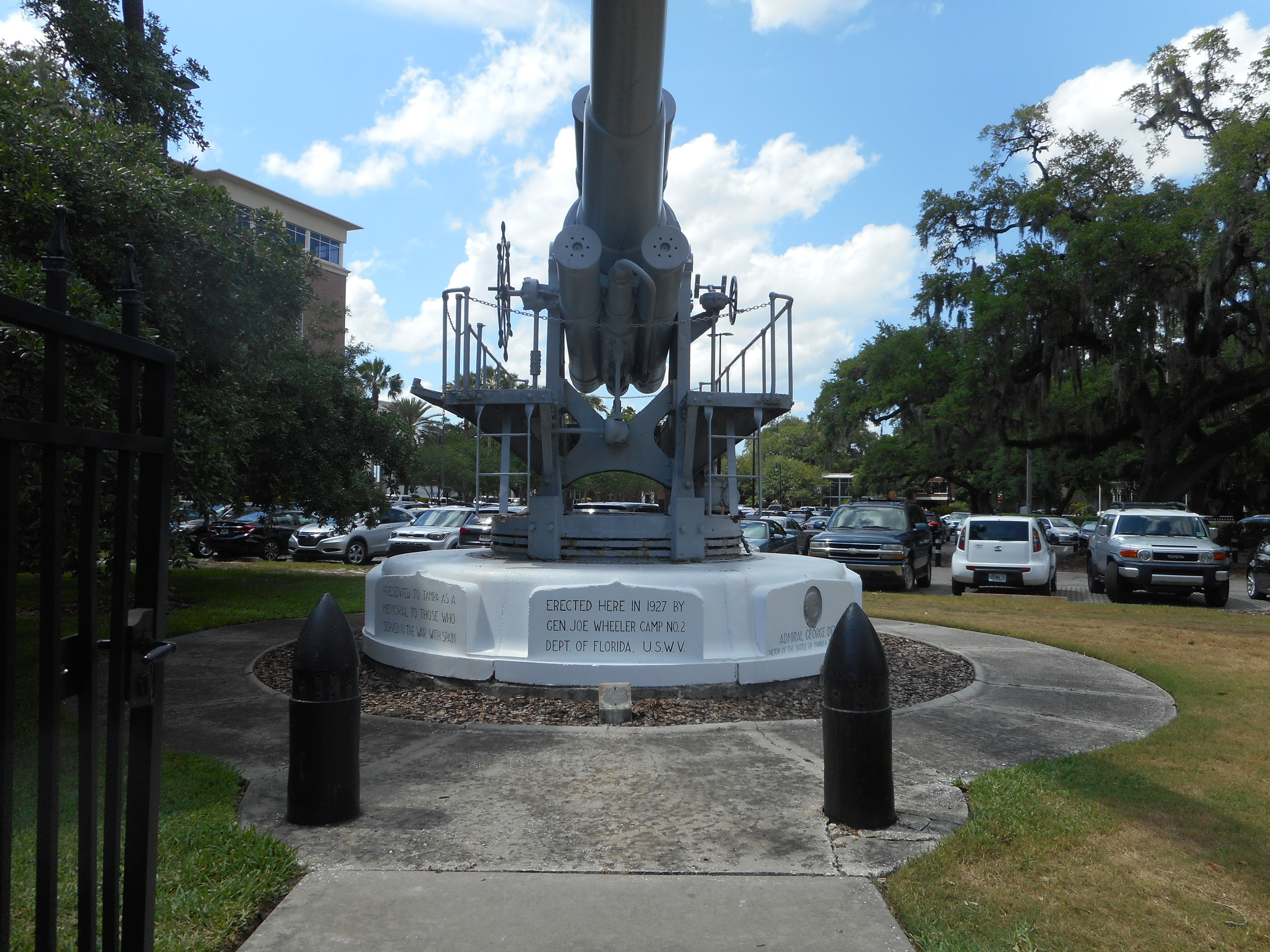 The former Fort Dade Spanish-American War era cannon on the grounds of the Henry B. Plant Museum/Tampa Bay Hotel on the grounds of the University of Tampa. Further details to come later.